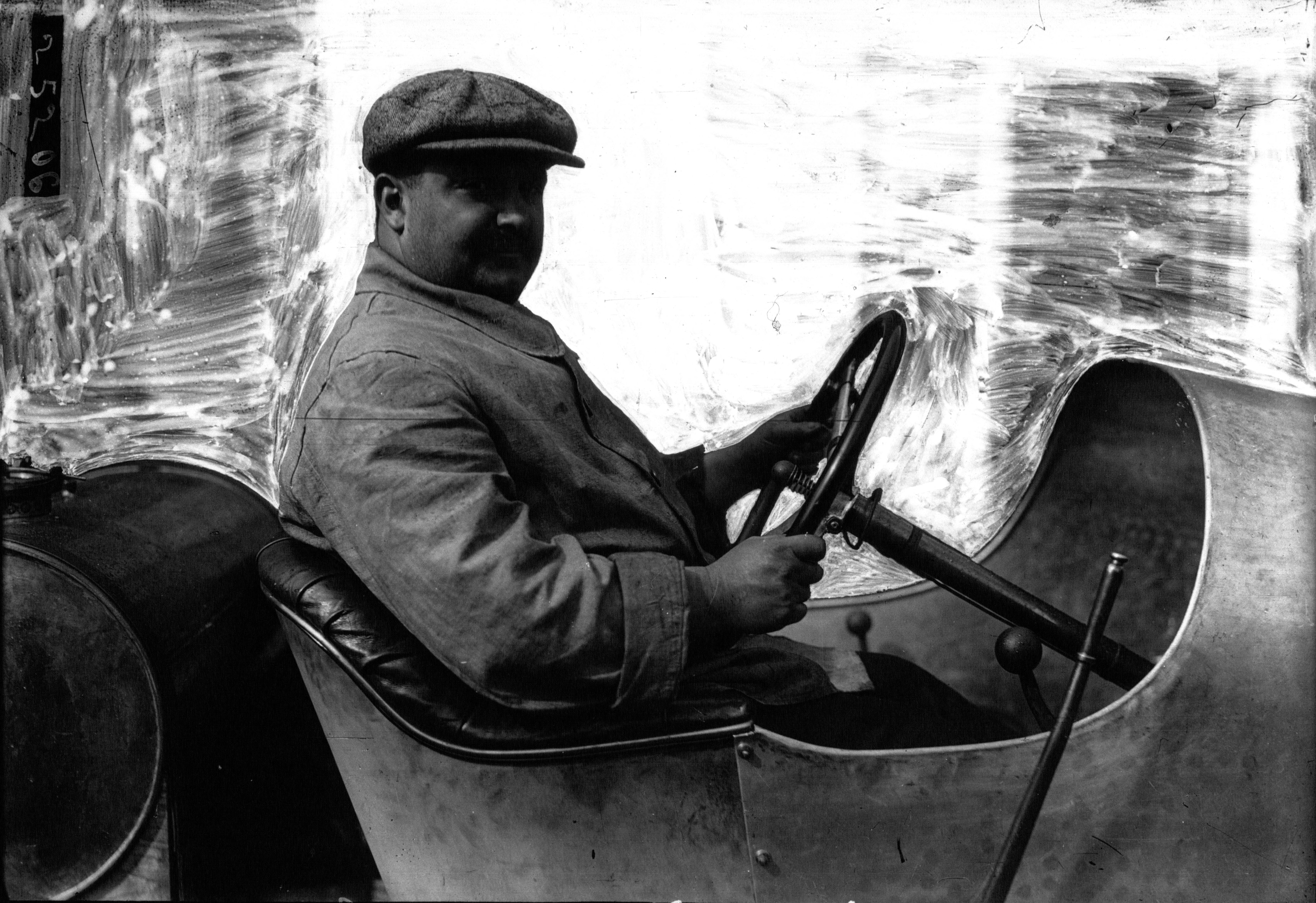 Paolo Zuccarelli in his Peugeot at the 1912 French Grand Prix at Dieppe.